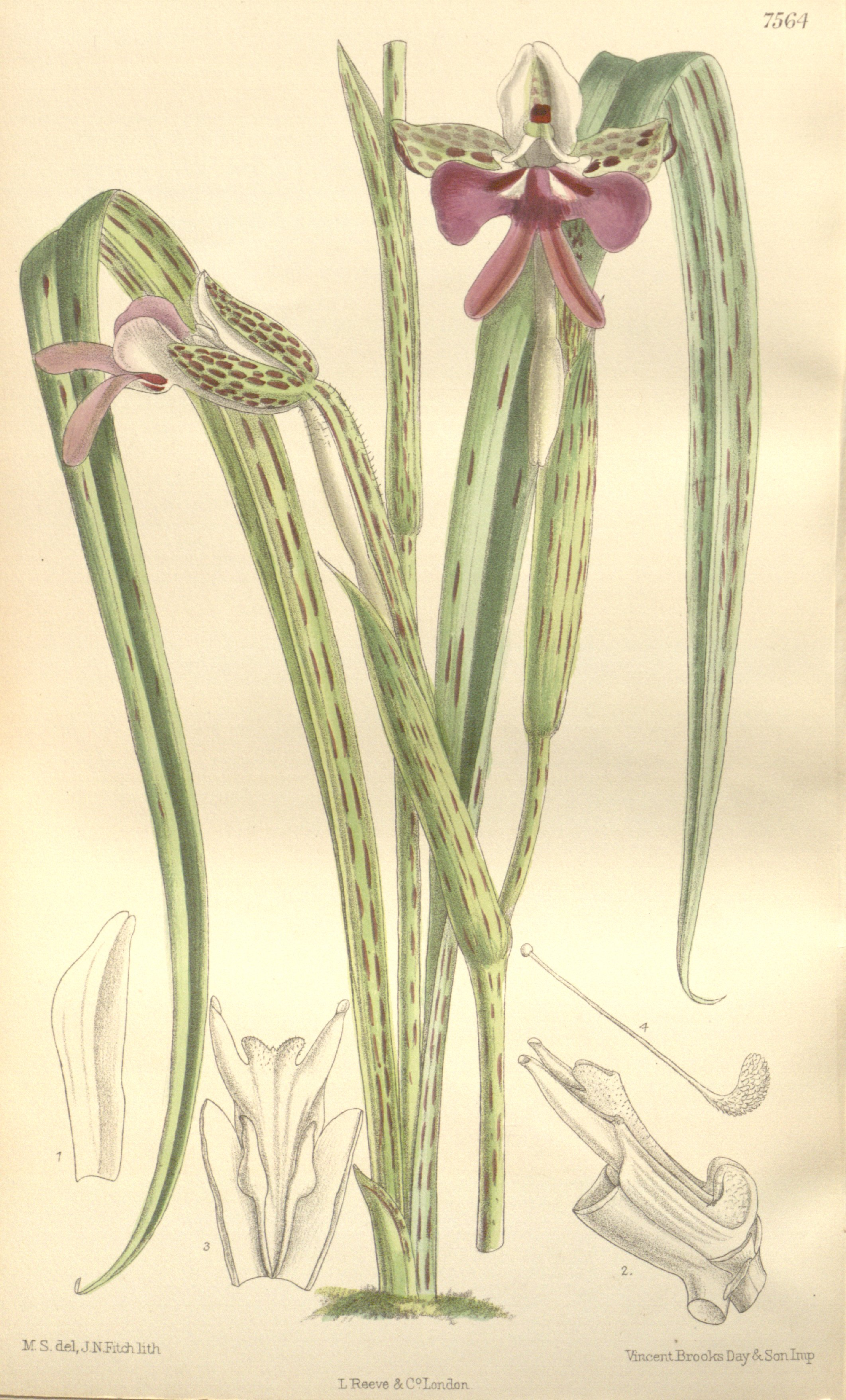 Illustration of Cynorkis uniflora (as Cynorkis grandiflora, spelled by Hooker as Cynorchis grandiflora)